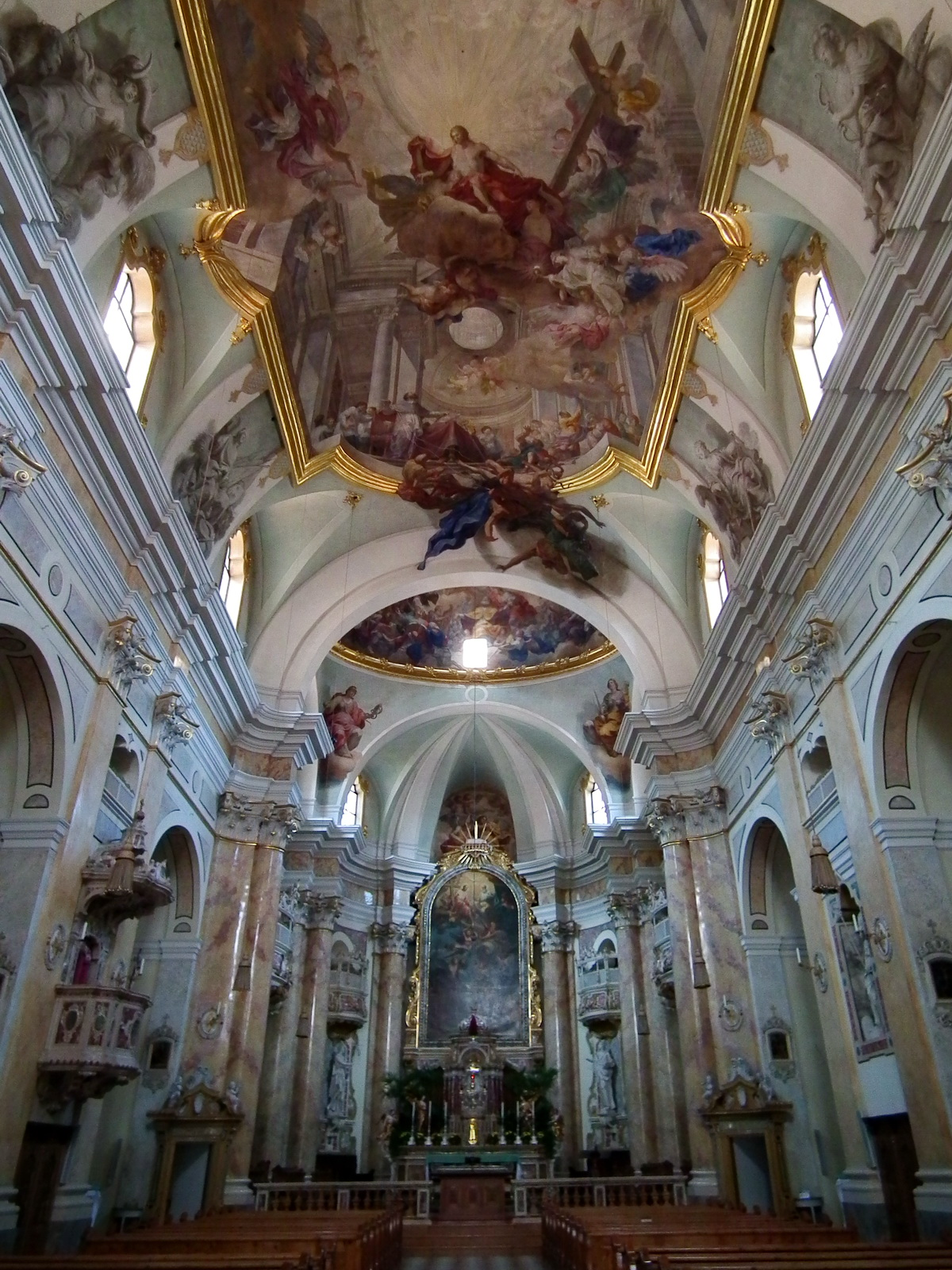 Muri-Gries Abbey Native nameAbbazia di Muri-Gries(Abtei Muri-Gries)LocationBolzano, ItalyCoordinates46° 30′ 11.6″ N, 11° 20′ 06.1″ E Web page Authority control : Q334056 VIAF: 9785149719125811130004 GND: 4538871-4 institution QS:P195,Q334056